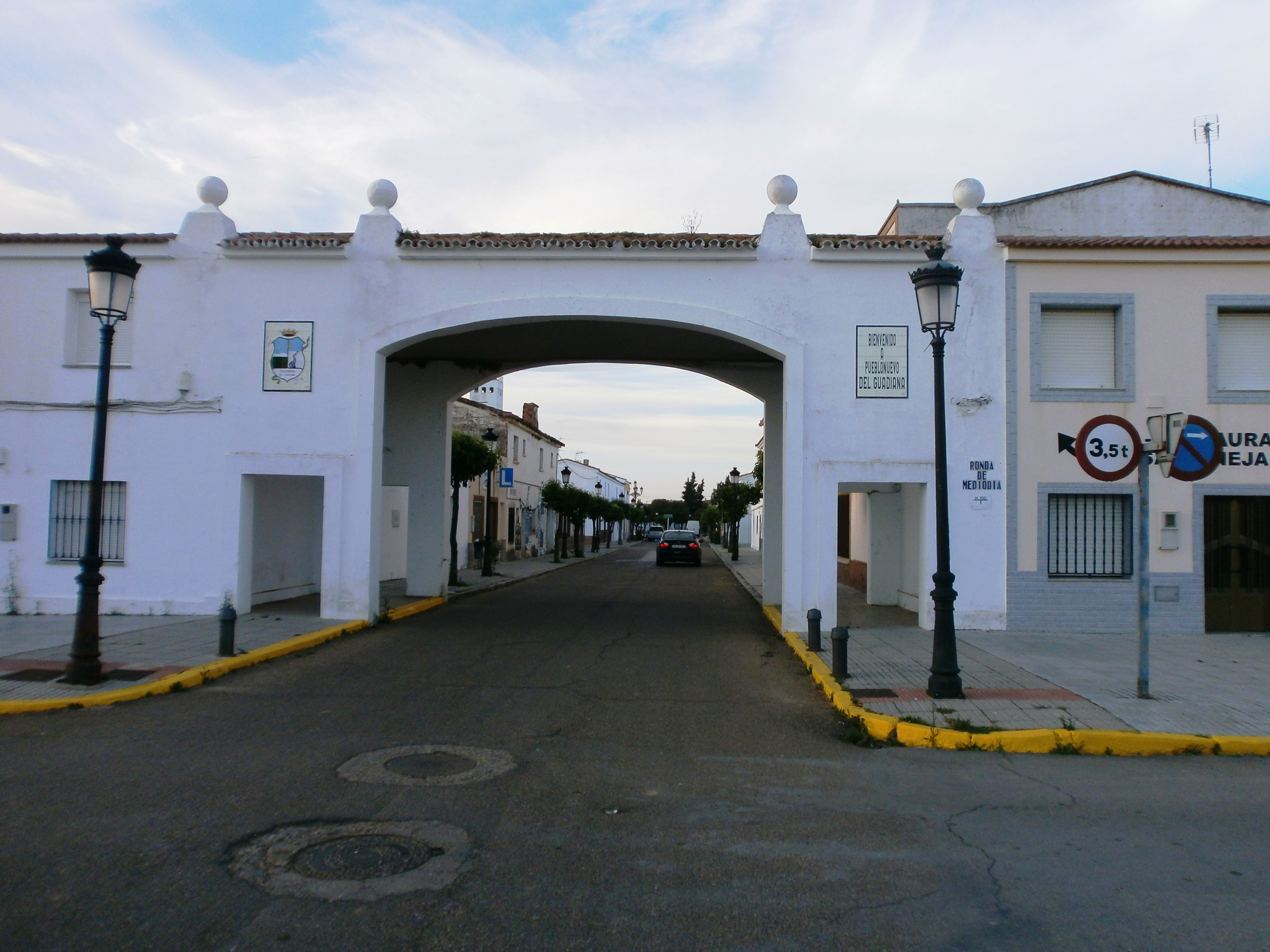 Entrada principal a Pueblo Nuevo del Guadiana con su escudo a la izquierda del arco.